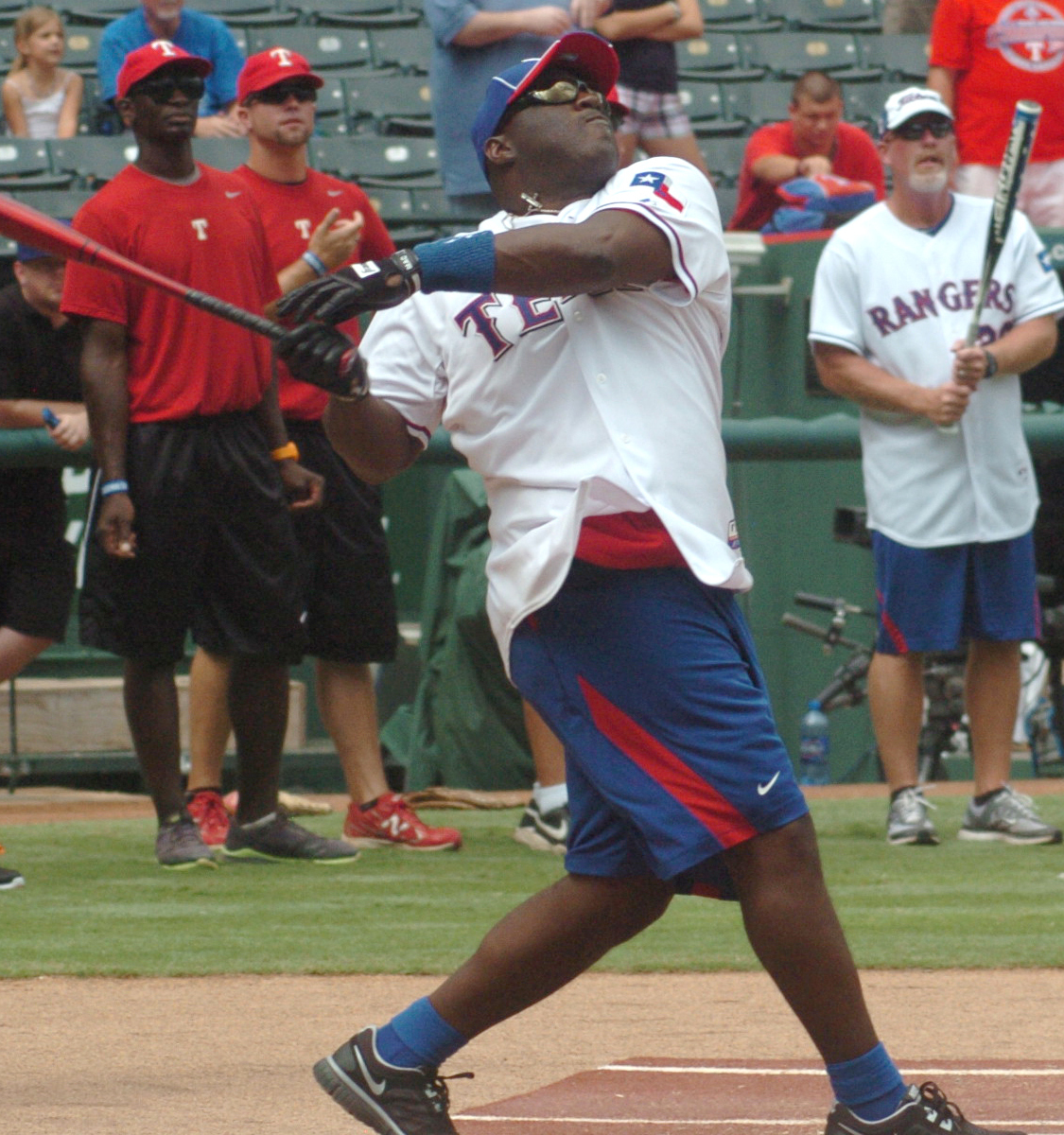 Former Ranger 'Doctor of Defense' Mark McLemore proves he's still a power hitter as he belts one into the outfield while former teammate Rusty Greer looks on. Catching for the WTB team is Sgt. Mark Tsatsos.